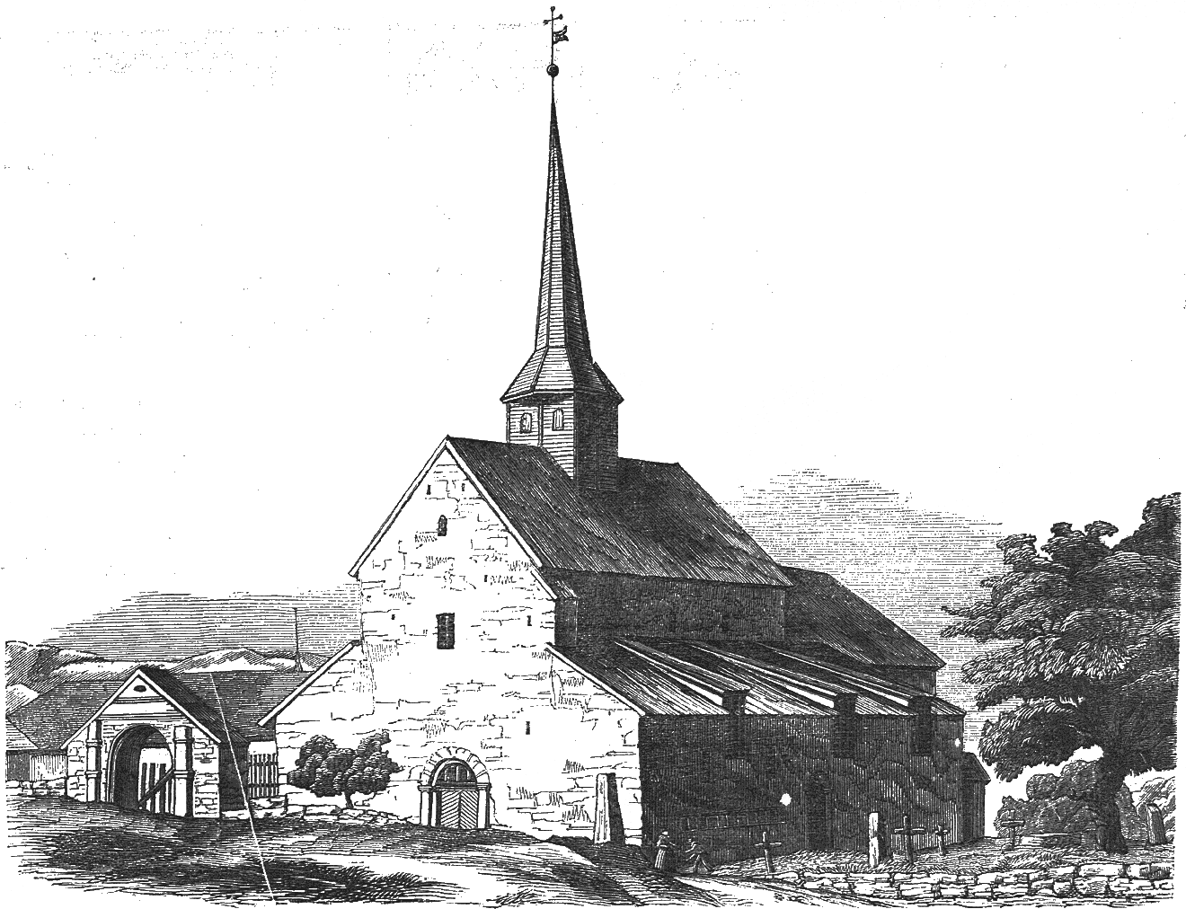 Gamle Aker Church in Christiania (Oslo). From Illustreret Nyhedsblad no. 15, January 10, 1852